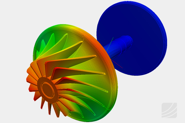 Stress distribution within an impeller analyzed under vibration load due to bearing tolerances. Performed with SimScale.